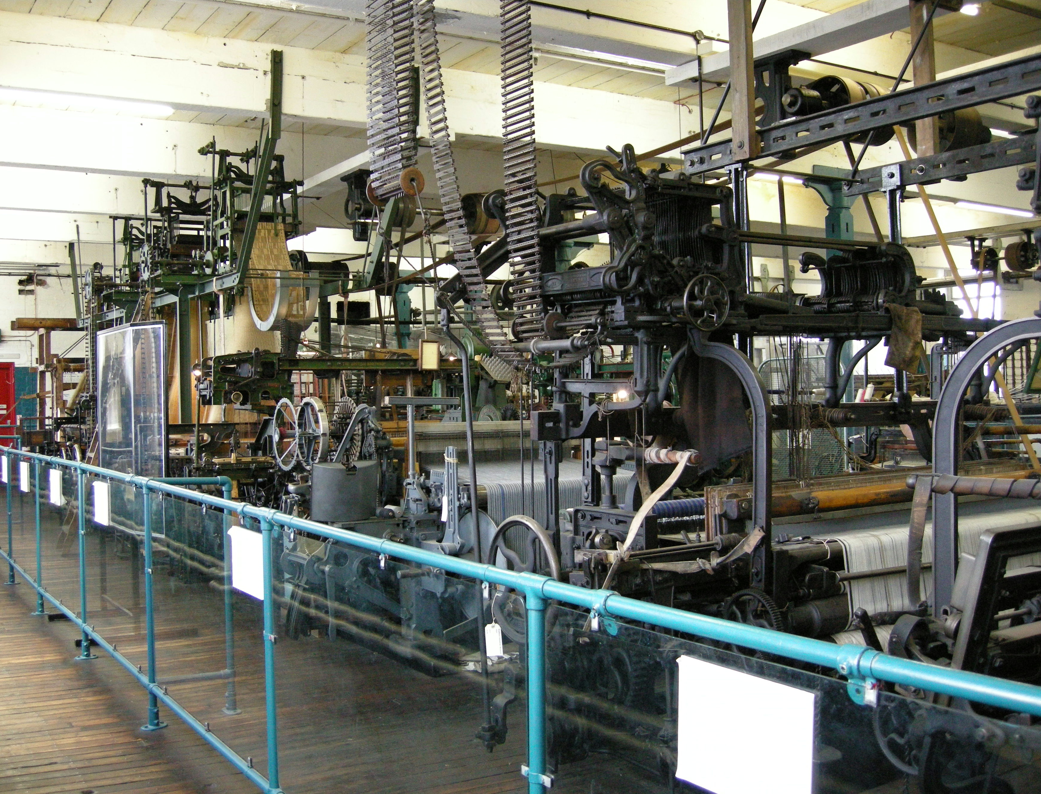 Looms at Bradford Industrial Museum, Bradford, West Yorkshire, England. 53.48'.40".N; 1.43'.16".W.